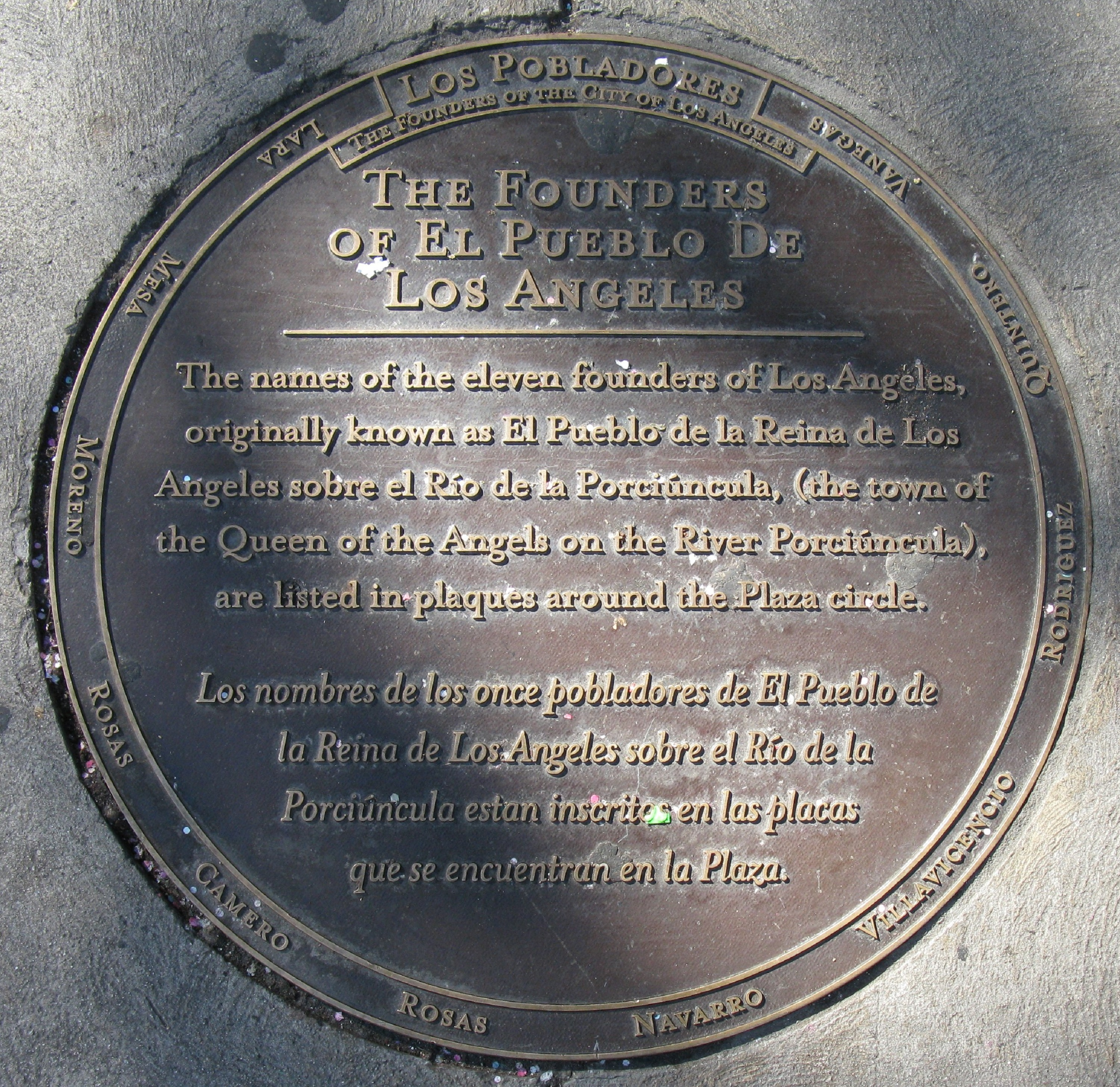 Names of pobladores at founding of the pueblo